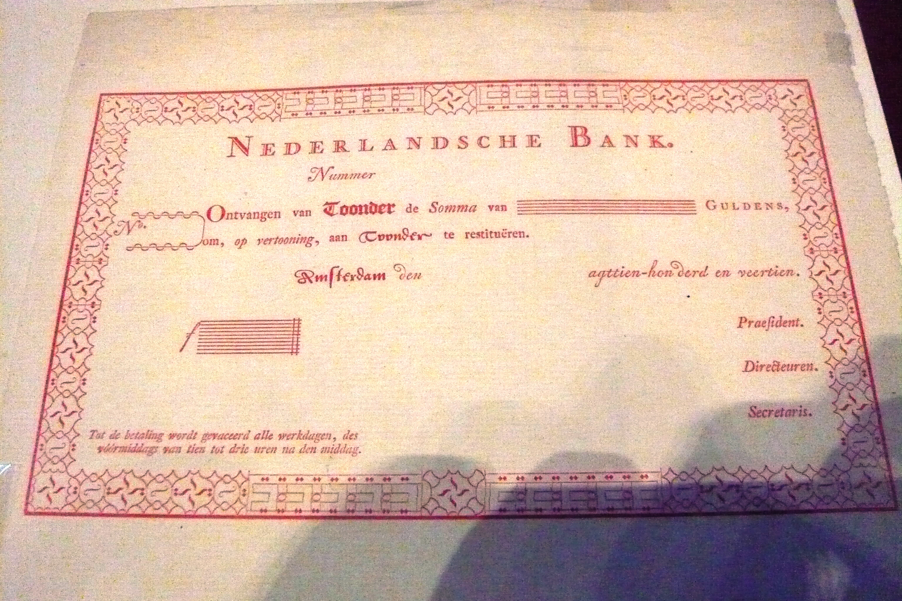 Exhibition about Haarlem printing company Joh. Enschedé in St. Janskerk, Haarlem, by North Holland archives Banknote roodborstje with music font on edges